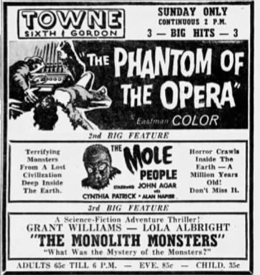 Towne Theater Last Normal advertisement, a triple billing, for the British film The Phantom of the Opera (1962), the American science fiction film The Mole People (1956), and the American science fiction film The Monolith Monsters (1959) - 6 Jan. 1963 Morning Call, Allentown PA. The ad for The Phantom of the Opera consists of a drawing and does not contain any stills or images from the film.